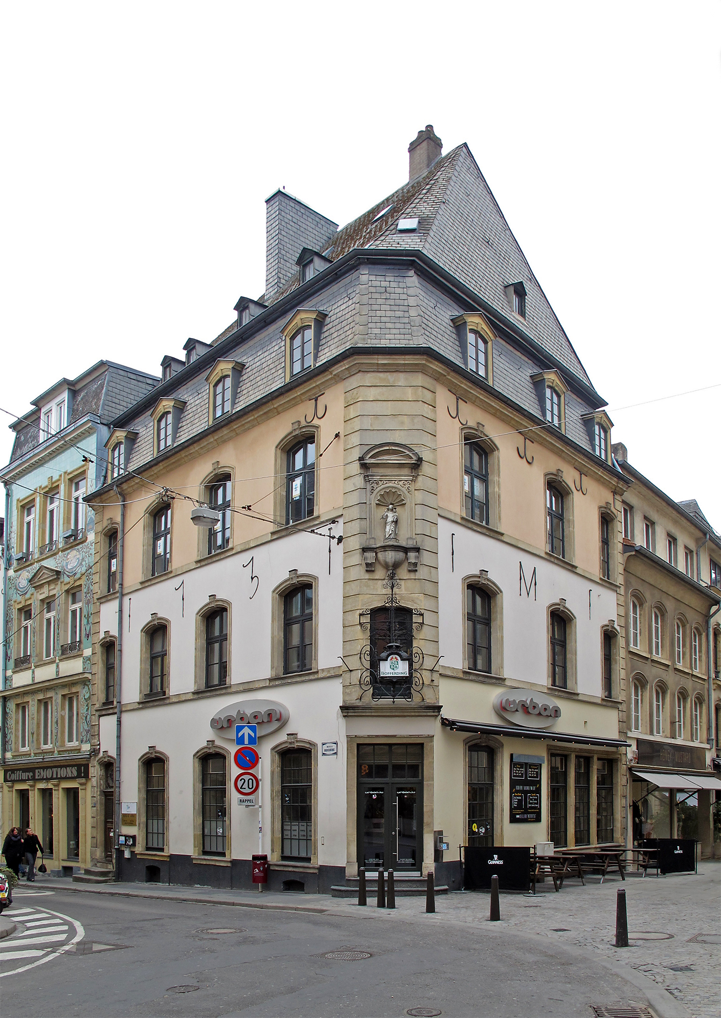 Building in Luxembourg-City, 2 rue de la Boucherie (Radio ARA)